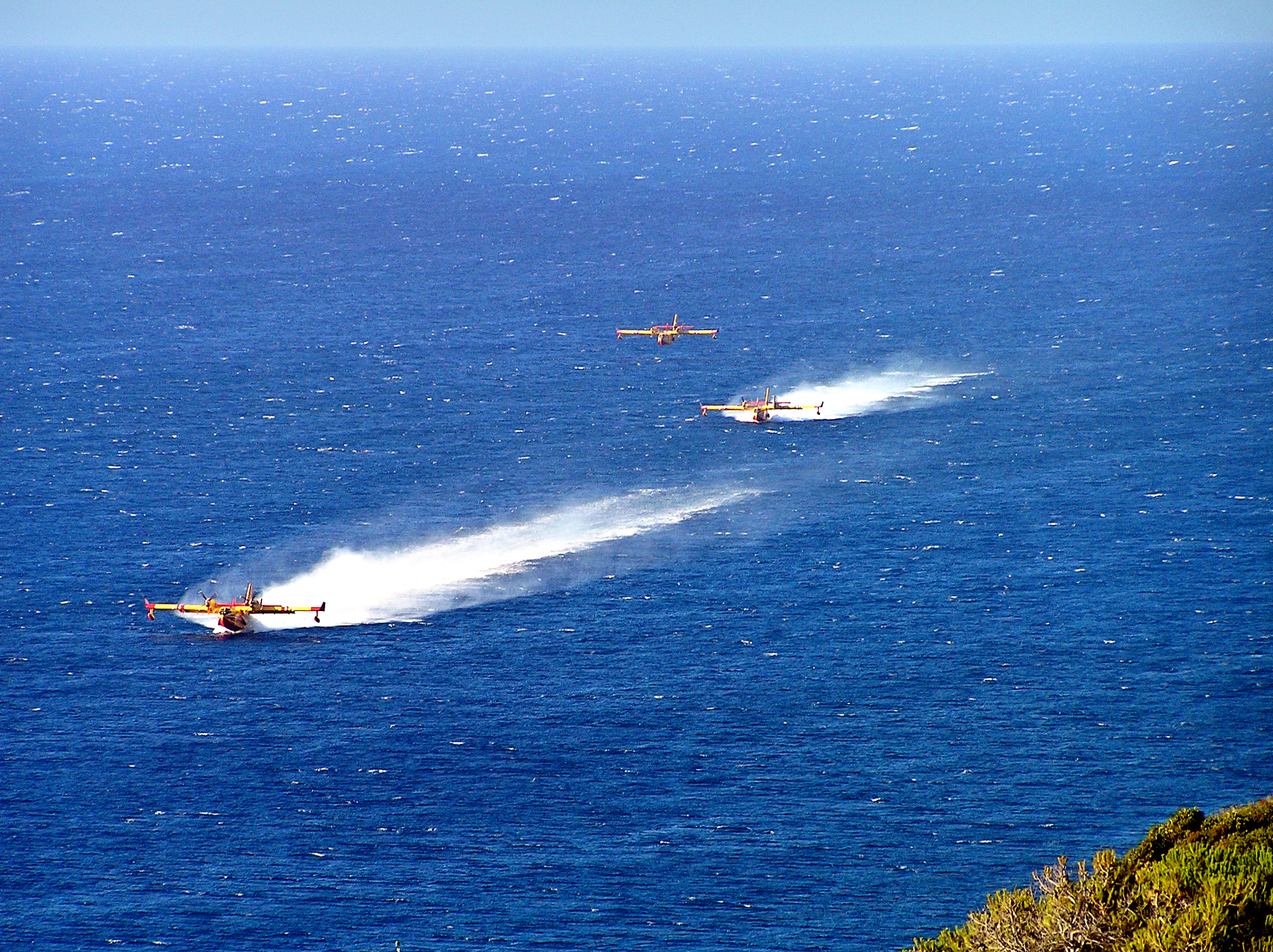 Three water bombers of the Sécurité Civile scooping water in the Revellata bay, near Calvi, Corsica, France.